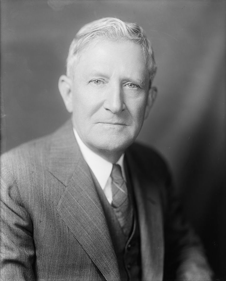 Title: SHEPPARD, MORRIS. SENATOR Abstract/medium: 1 negative : glass ; 8 x 10 in. or smaller